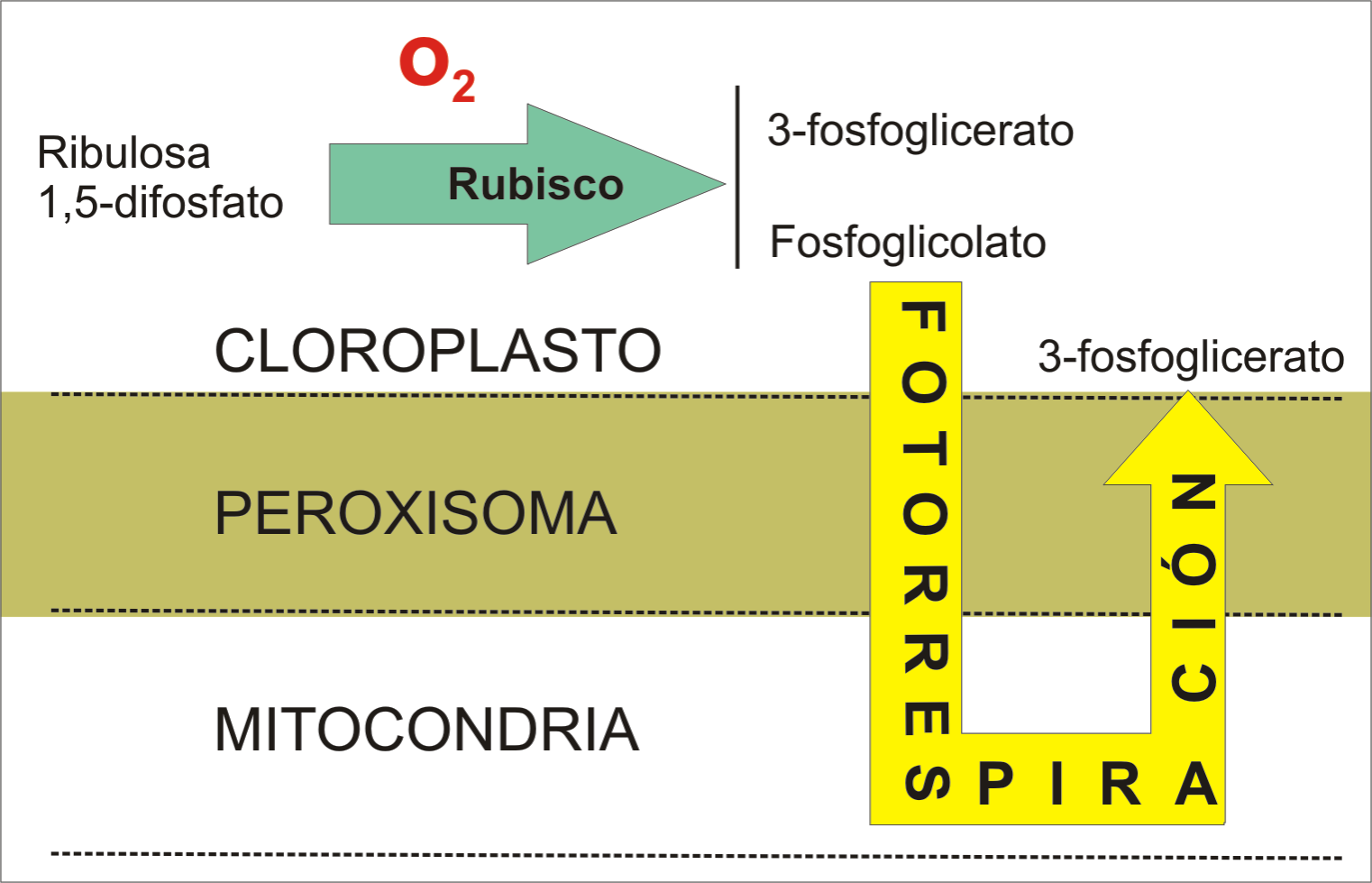 fotorespiration diagram labelled in Galician